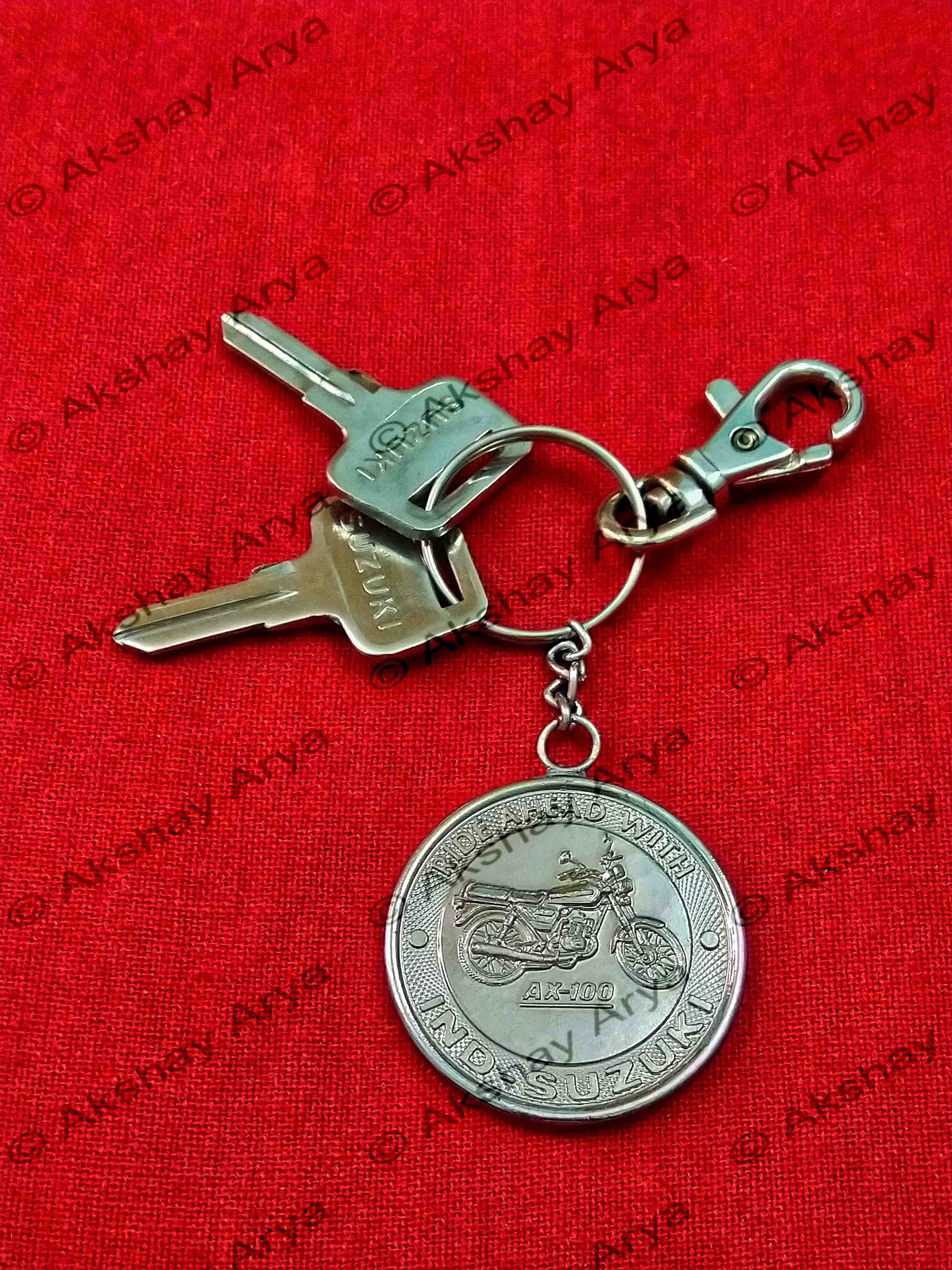 Ind Suzuki Key Chain Front